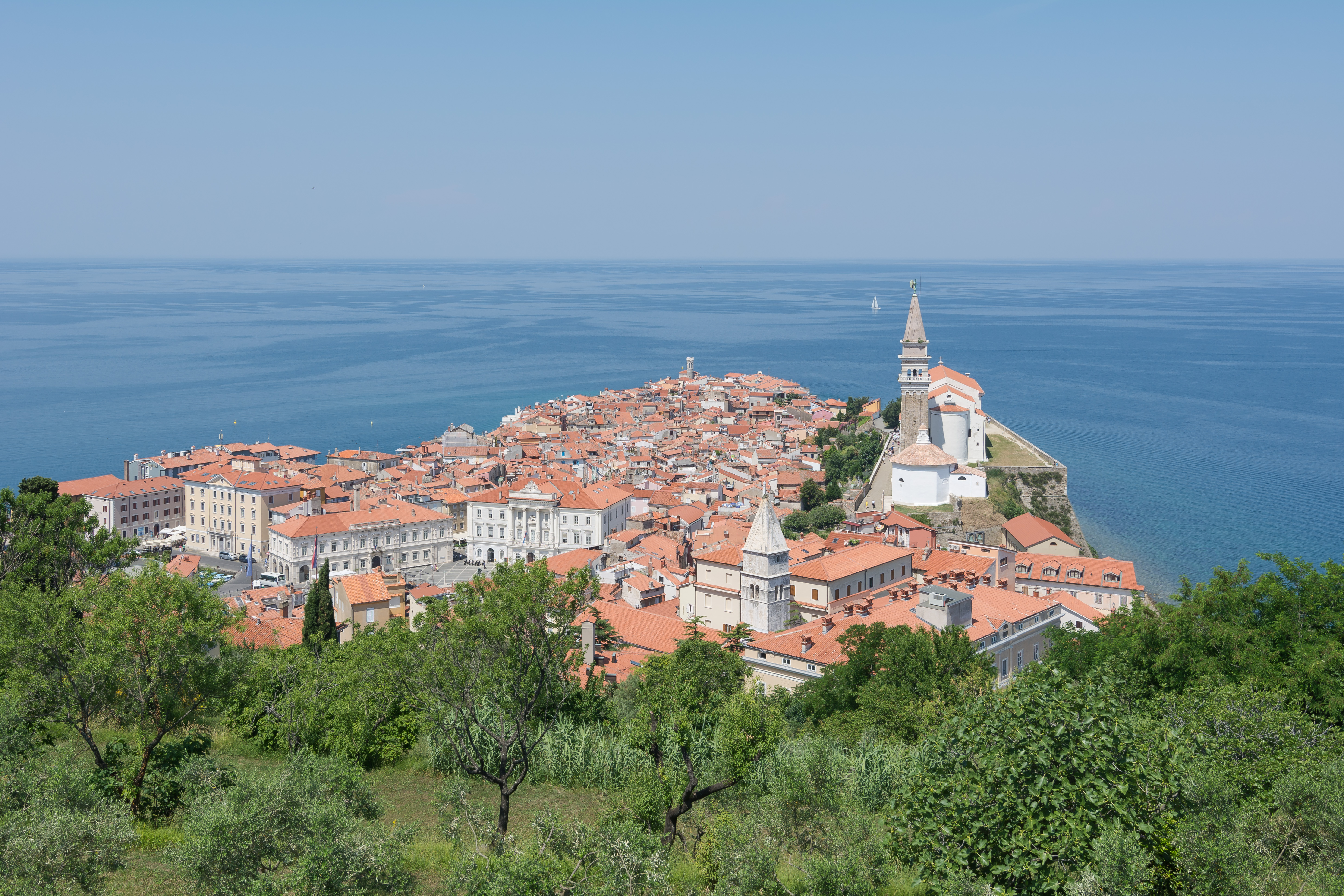 The quarter Punta is situated on a peninsula.